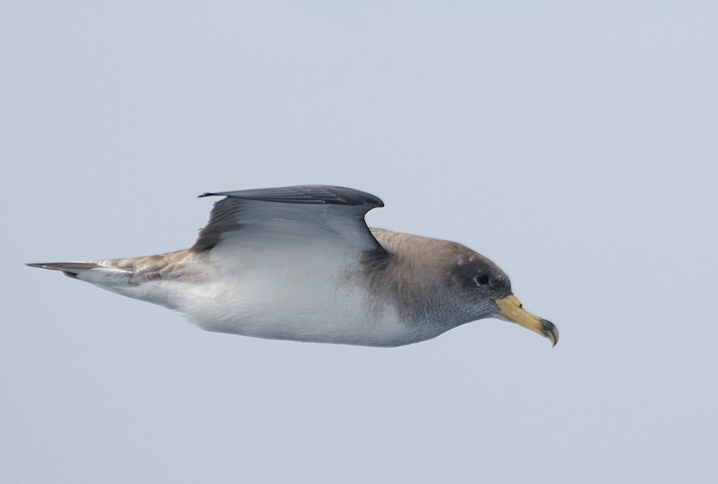 Calonectris diomedea, Cabrera National Park, Mallorca